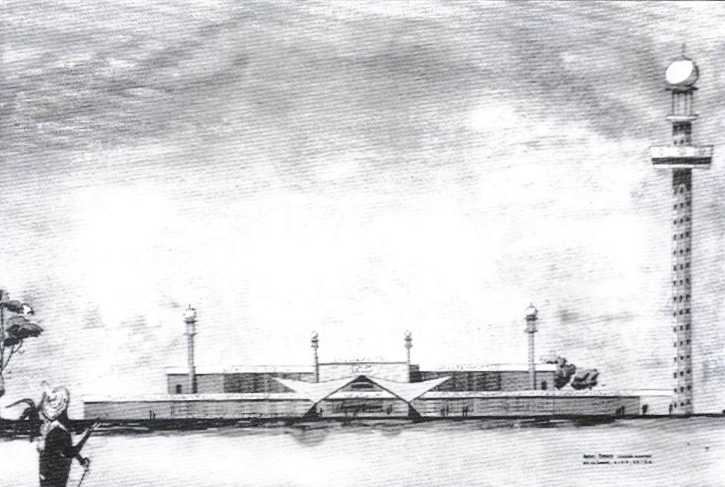 First Design of the Masjid-e-Aqsa in Rabwah by Abdul Rashid. The 55 m Minaret was prohibited by Pakistan Air Force in Sargodha.